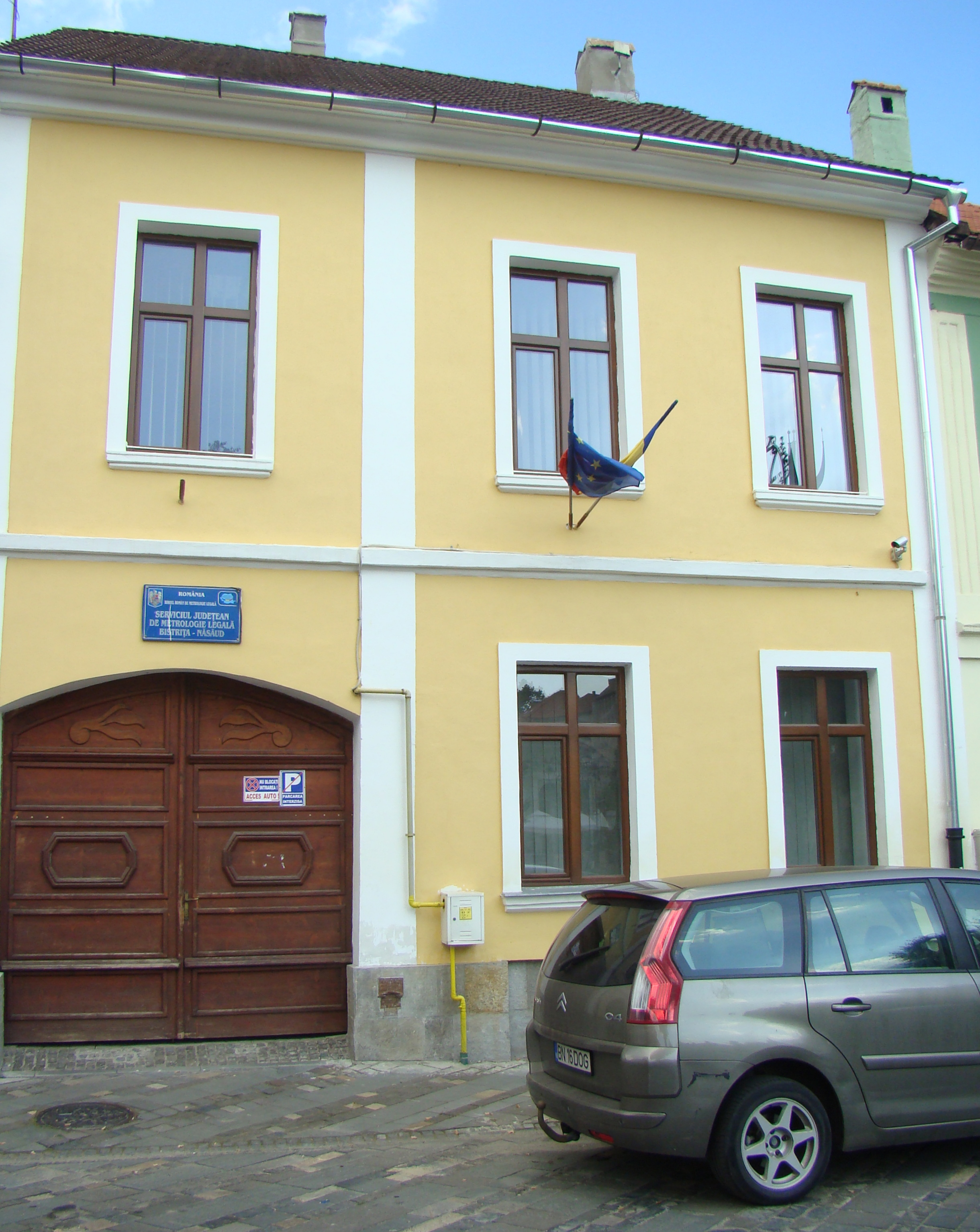 House, historic monument, in Bistrița, Piața Mică 11